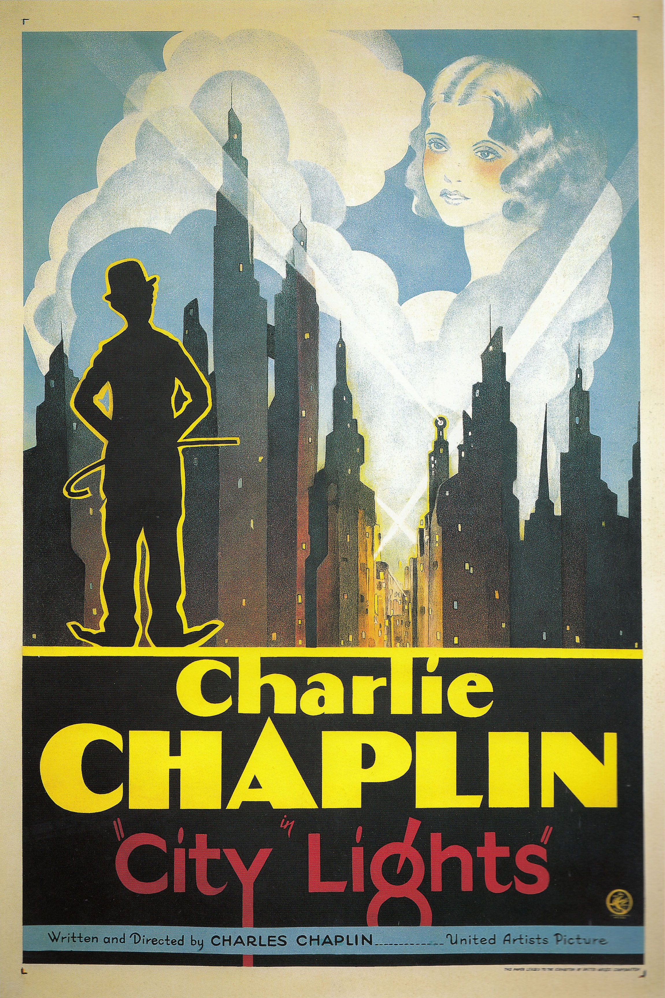 Theatrical poster for Charlie Chaplin's 1931 film City Lights. In 2003, this poster design ranked #52 on the American Film Institute's list of the "Top 100 American Movie Poster Classics" (#51–100 via the Internet Archive), part of its 100 Years... series. More on the Top 100 American Movie Posters series at and . The scan features the original design: note the (somewhat blurry still identifiable) logo of the H.C. Miner Litho Co. in the bottom right, a long-defunct lithography company whose logo is often found on American film posters of the 1920s and 1930s. Later reprints often omit this logo.